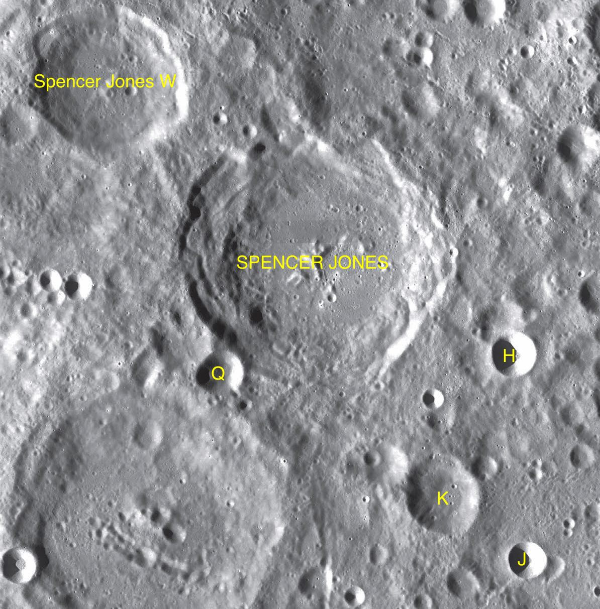 Part of the chart LAC-67 used for the presentation.